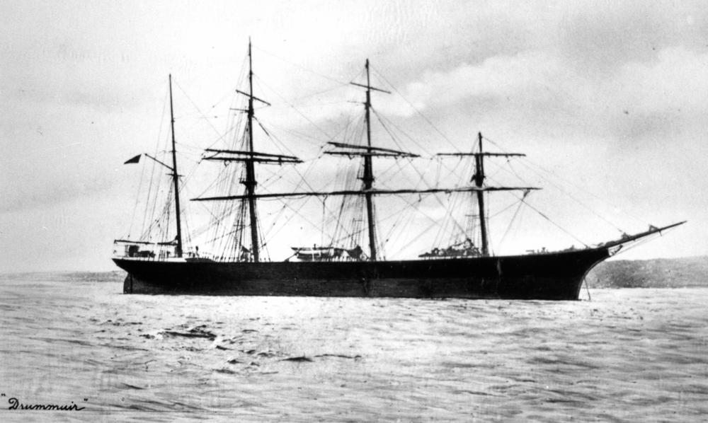 Drummuir (ship)